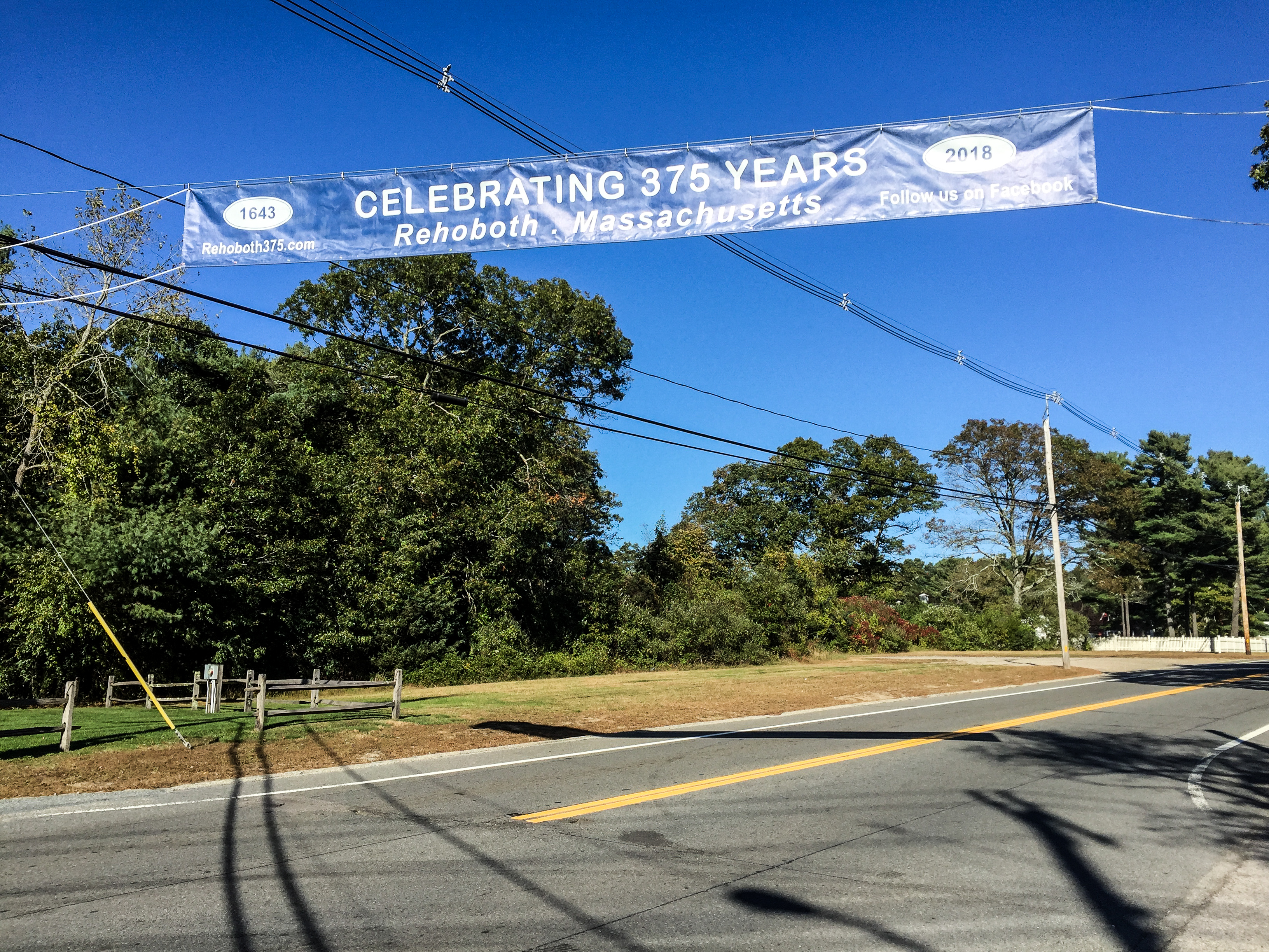 Banner across Route 44 in Rehoboth, Massachusetts notes the town's 375th anniversary in 2018.